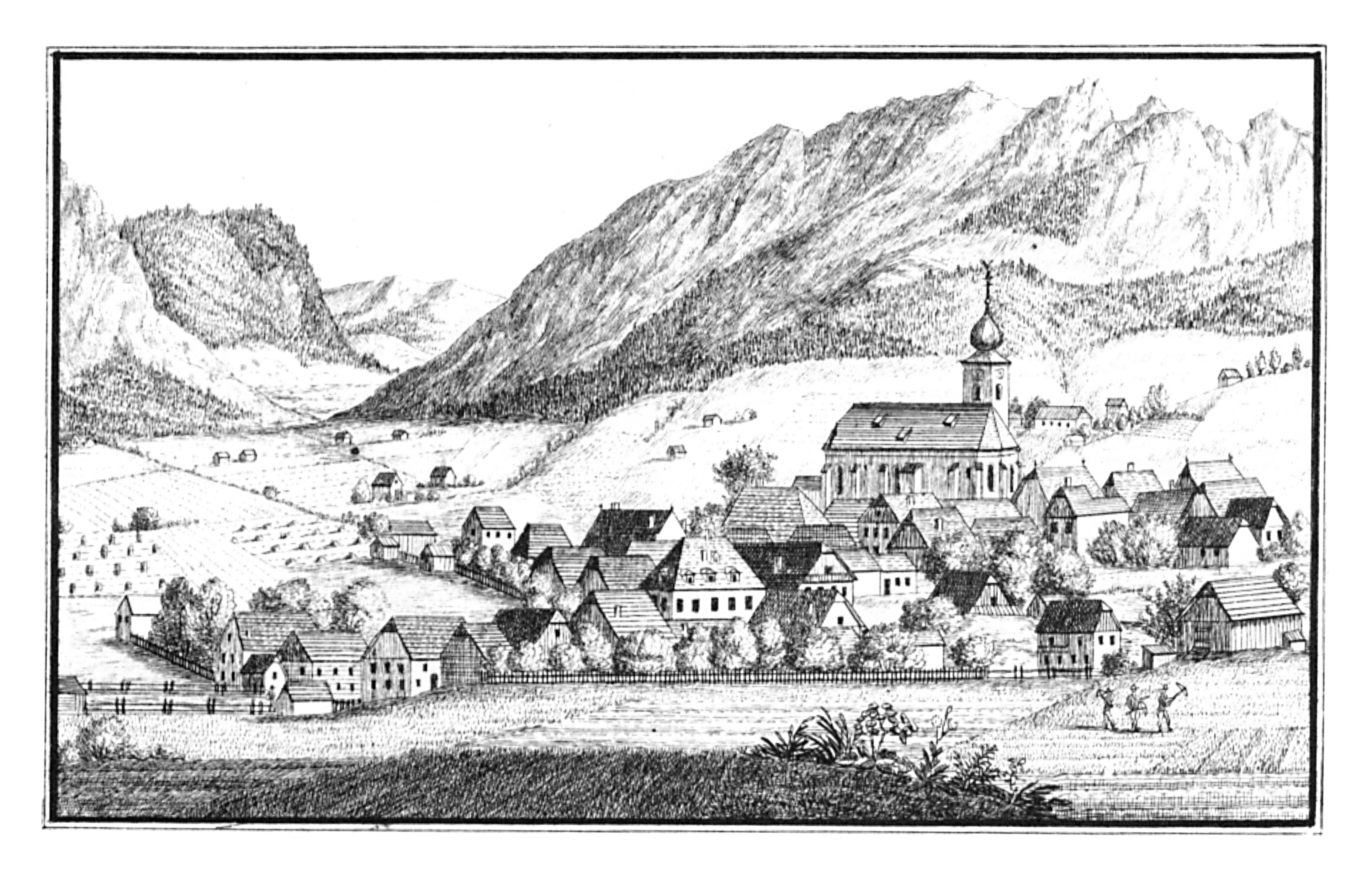 J. F. Kaiser - lithographirte Ansichten der Steyermärkischen Städte, Märkte und Schlösser, Graz 1824-1833 Joseph Franz Kaiser (1786–1859) Alternative names J. F. KaiserDescriptionAustrian printer and editorDate of birth/death 11 March 1786 19 September 1859Location of birth/death Graz (Styria) GrazAuthority control : Q1499963 VIAF: 30629353 ISNI: 0000 0000 3083 0153 LCCN: n87141671 GND: 129880159 NLP: A24960305 WorldCat creator QS:P170,Q1499963 . Scanprojekt Community Projektbudget 2012 This scan or this PDF-file was created within the GLAM-project Bookscanning, supported by Wikimedia Germany and Wikimedia Austria as a part of the community-project to capture books, documents and pictures which are not eligible to copyright or for which the copyright has expired. This document describes or depicts an object which is located in Austria today. Send requests for uncompressed scans to Hubertl. This work is in the public domain in its country of origin and other countries and areas where the copyright term is the author's life plus 100 years or less. You must also include a United States public domain tag to indicate why this work is in the public domain in the United States. This file has been identified as being free of known restrictions under copyright law, including all related and neighboring rights.